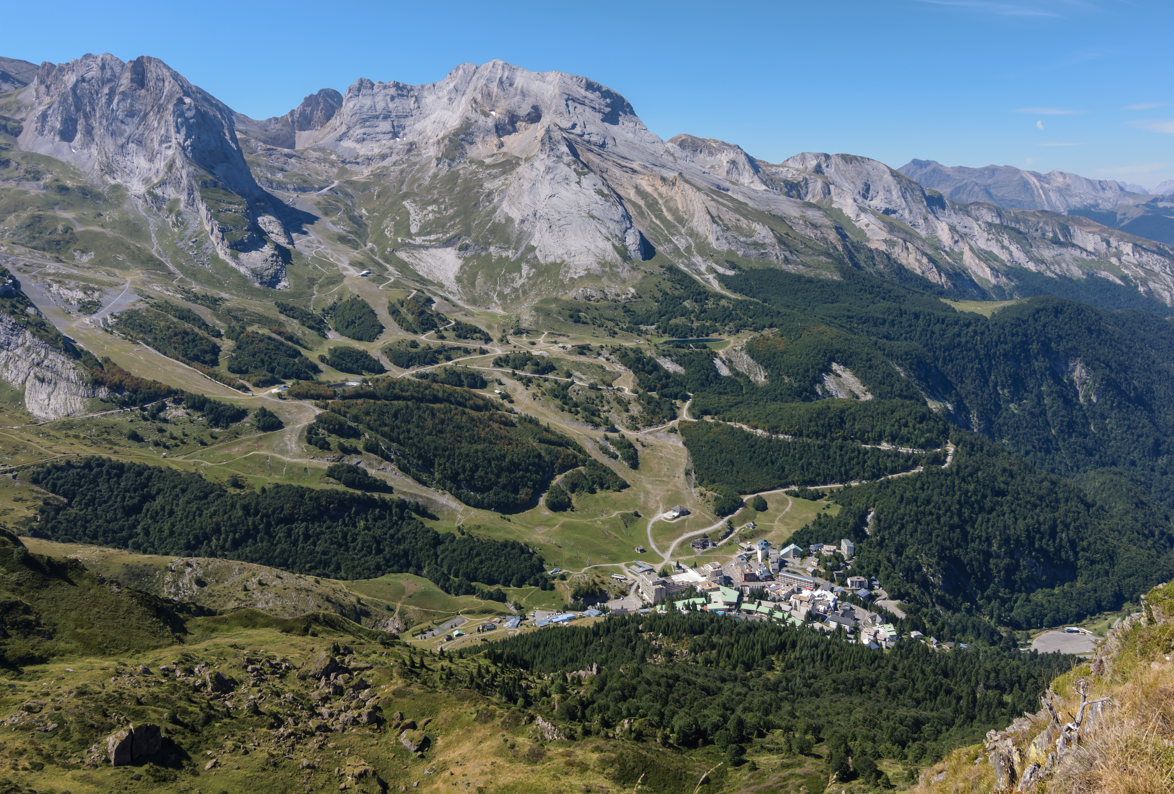 Gourette cirque in the Pyrenees, overlooked by the Pène Medaa (2,520m) et the Pic de Ger (2,613m) (Pyrénées-Atlantiques, France).